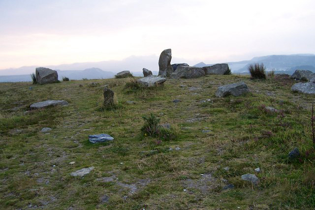 Carloggas Downs This downs had been covered by sand waste from china clay workings but around 2000 the industry in combination with English nature have flattened and it is being 'reclaimed' as a heath.